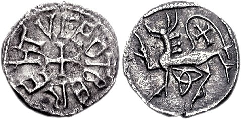 Anglo-Saxons Kings of Northumbria. Eadberht. 737-758. AR Sceat (1.06 g, 6h). Group D (Pirie regal group Bii). York mint. EOTBEREhTVG•, cross pattée Heraldic quadruped standing left, raising foreleg; triquetra below, cross pattée above. Beowulf 107 (this coin); Pirie, Guide 2.1k; North 178; SCBC 847. Good VF, toned.